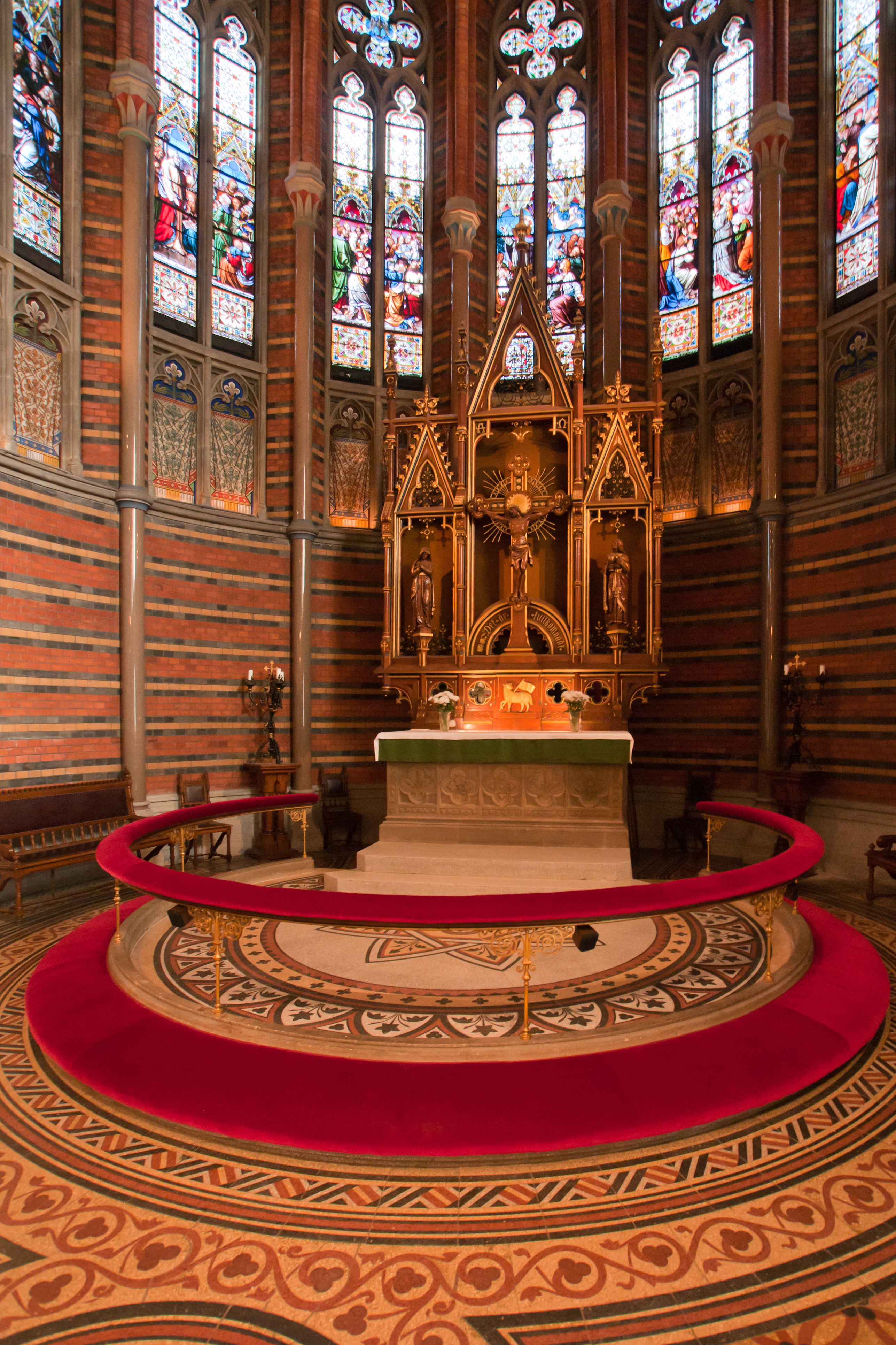 Interior of All Saints Church in Lund Sweden.